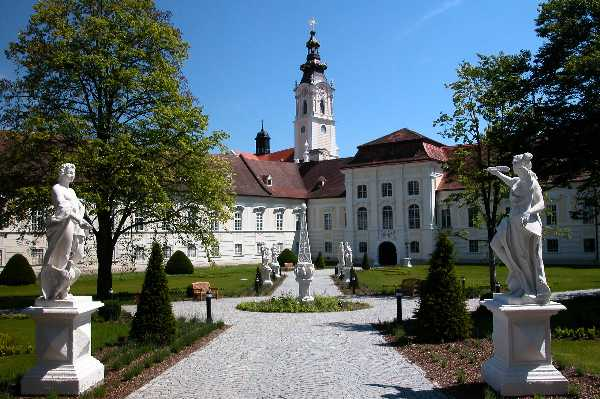 Altenburg Abbey.